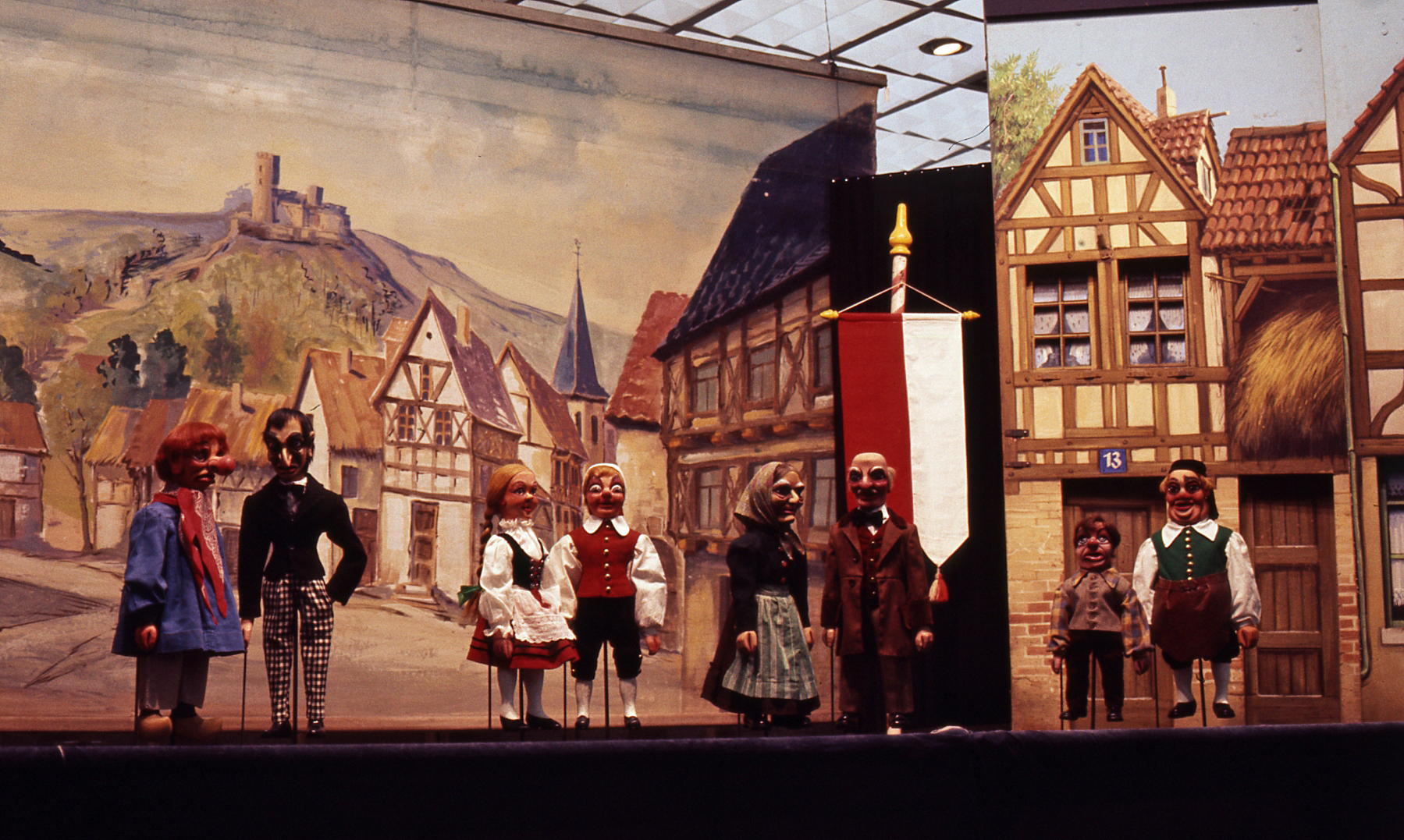 Cologne Puppet Theater "Hännesche"